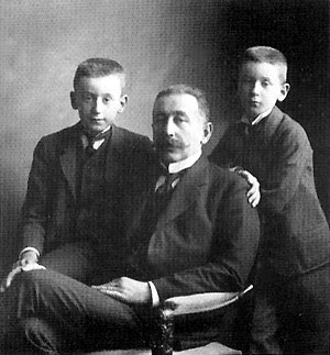 Erzy Czapski (1861-1930) and his sons, before 1917